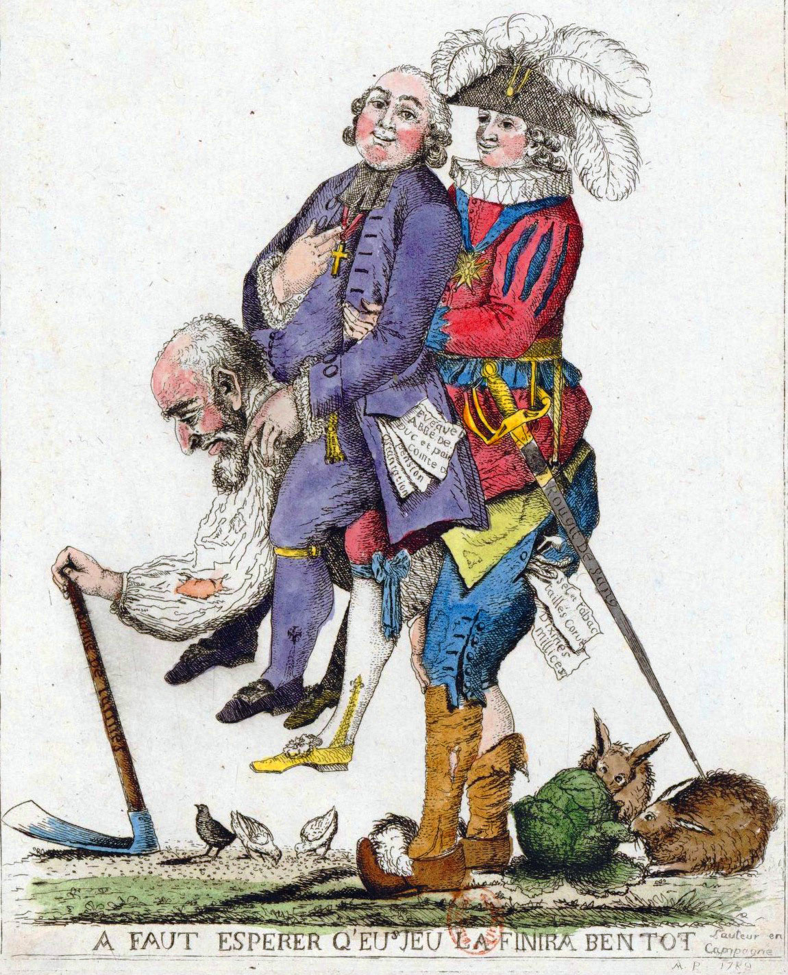 "You should hope that this game will be over soon." The Third Estate carrying the Clergy and the Nobility on its back